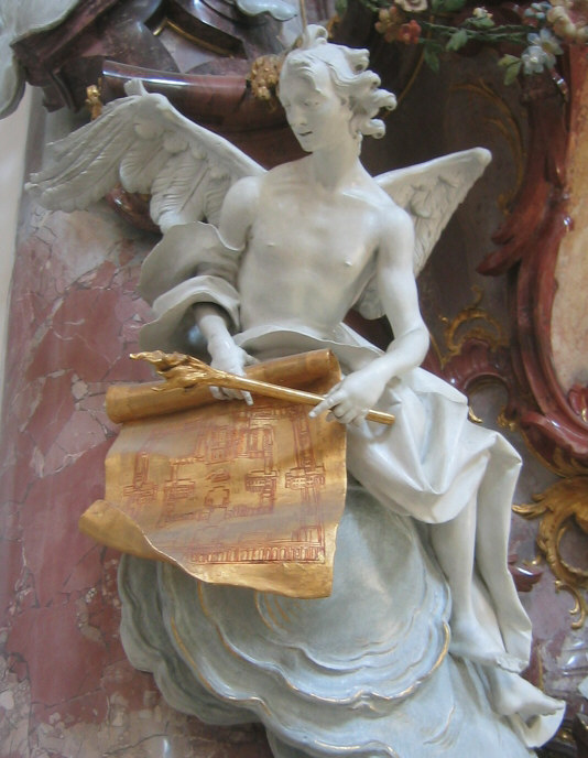 Zwiefalten, Germany: former abbey church, angel scultpure by Johann Joseph Christian (1706-1777).